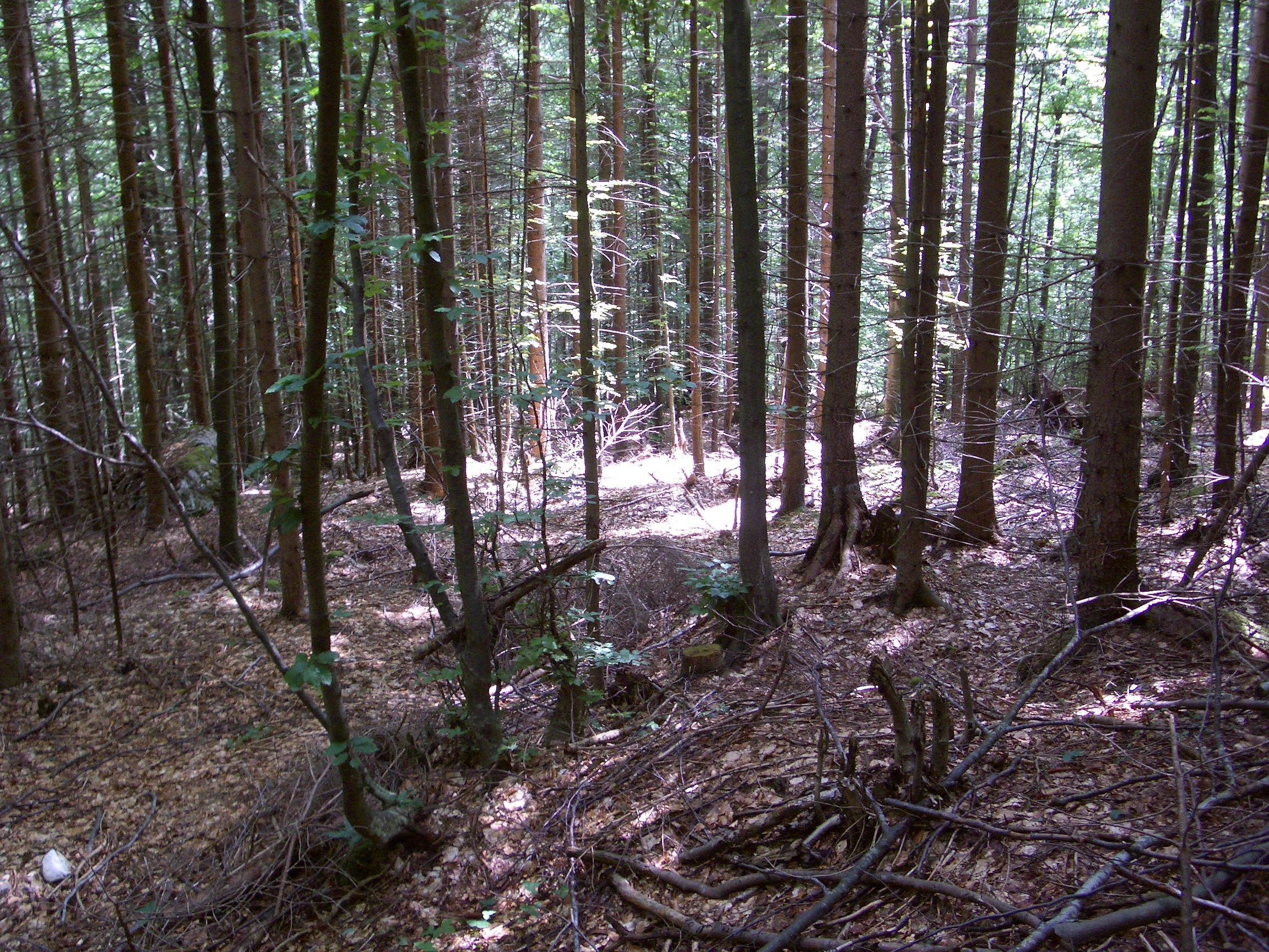 Slovenian wide angle shots uploaded in bulk. All taken near Kranjska Gora, Julian Alps in Summer 2004.